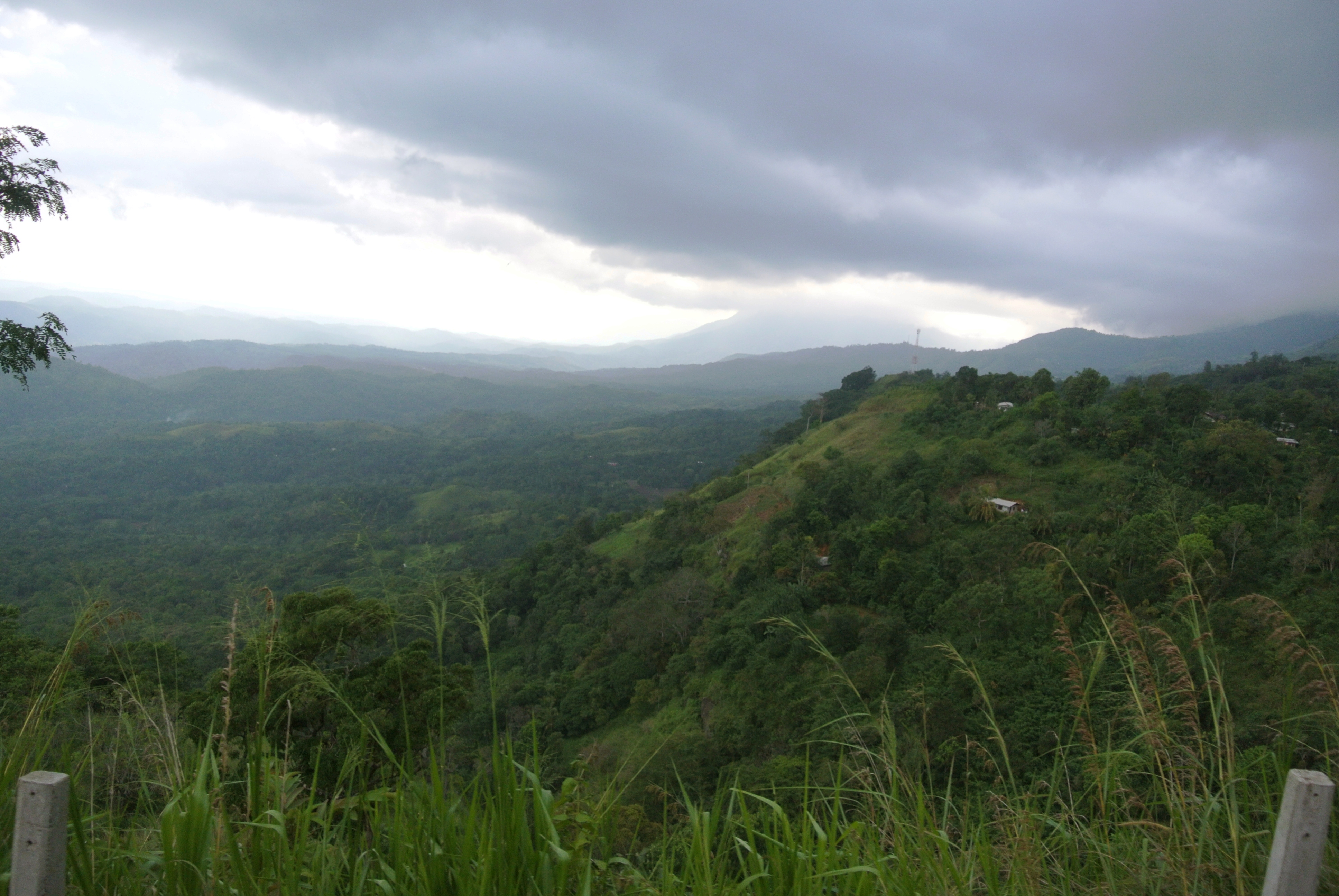 Sri Lankan Hills in the south of the district of Badulla. Tropical rain forest (lowland rain forest).